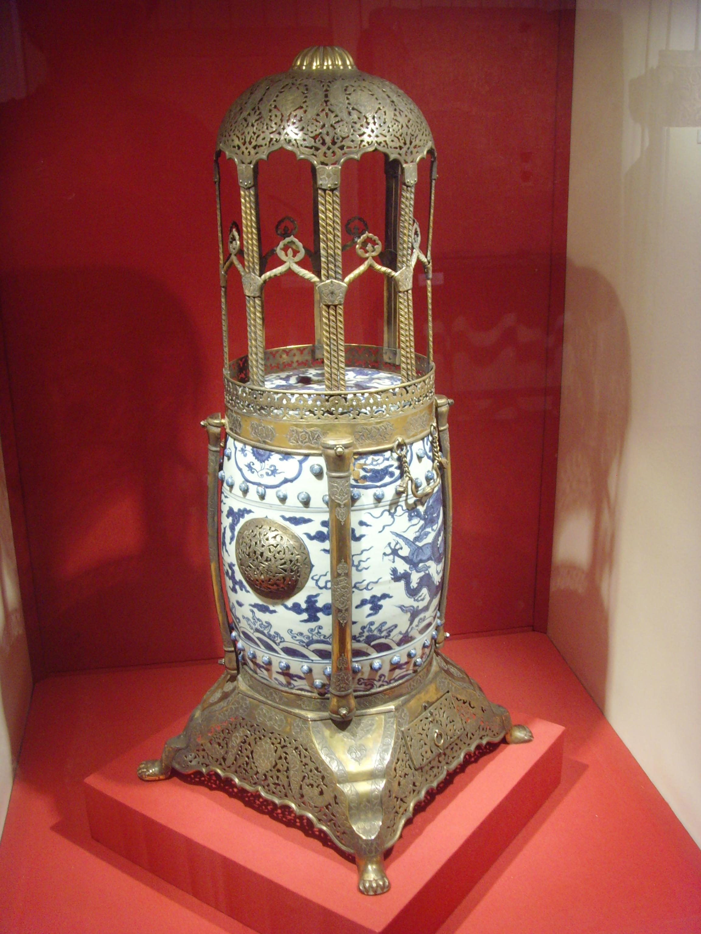 Ottoman censer - 1628 - Collection of Turkish and Islamic Arts Museum